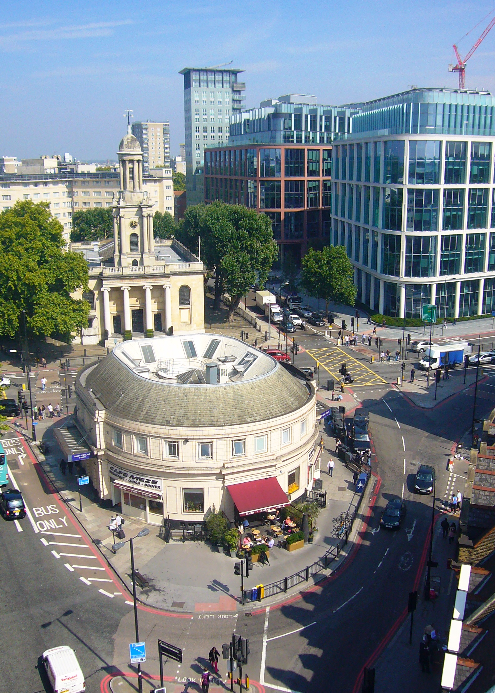 View of Great Portland Street Underground Station along with the newly built structures of Regents Place and Holy Trinity Church in the background. The Marylebone and Euston Roads are the heavily polluted highways that run behind the station.